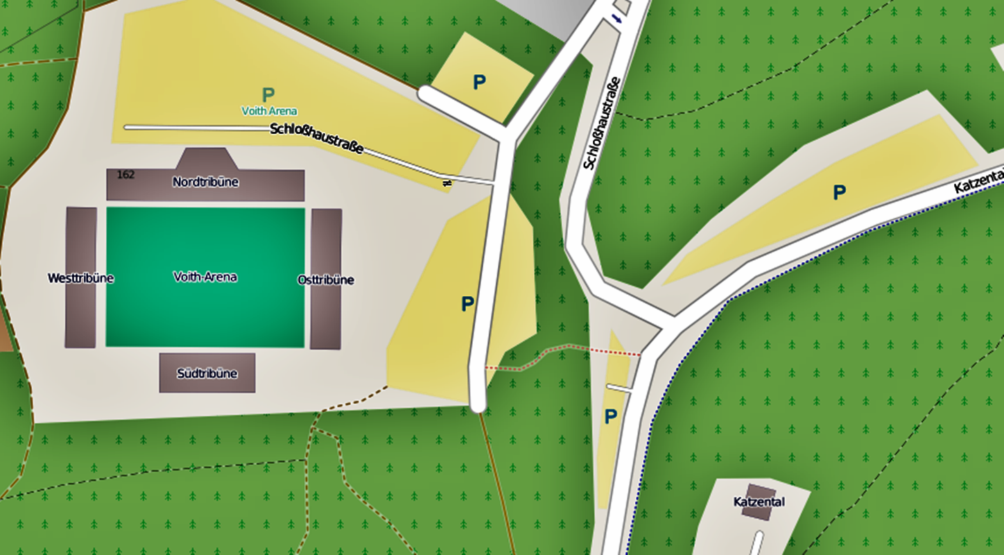 This map may be incomplete, and may contain errors. Don't rely solely on it for navigation.